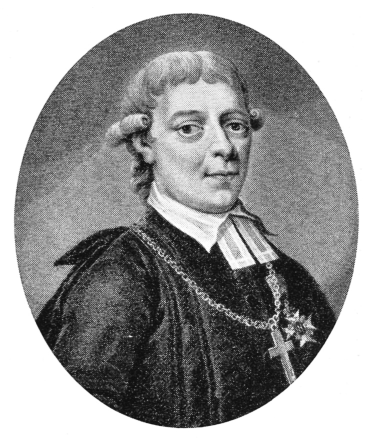 Swedish bishop Magnus Lehnberg (1758-1808).